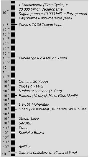 I created this image from Excel to depict the Logarithmic scale of time used in Jain texts.